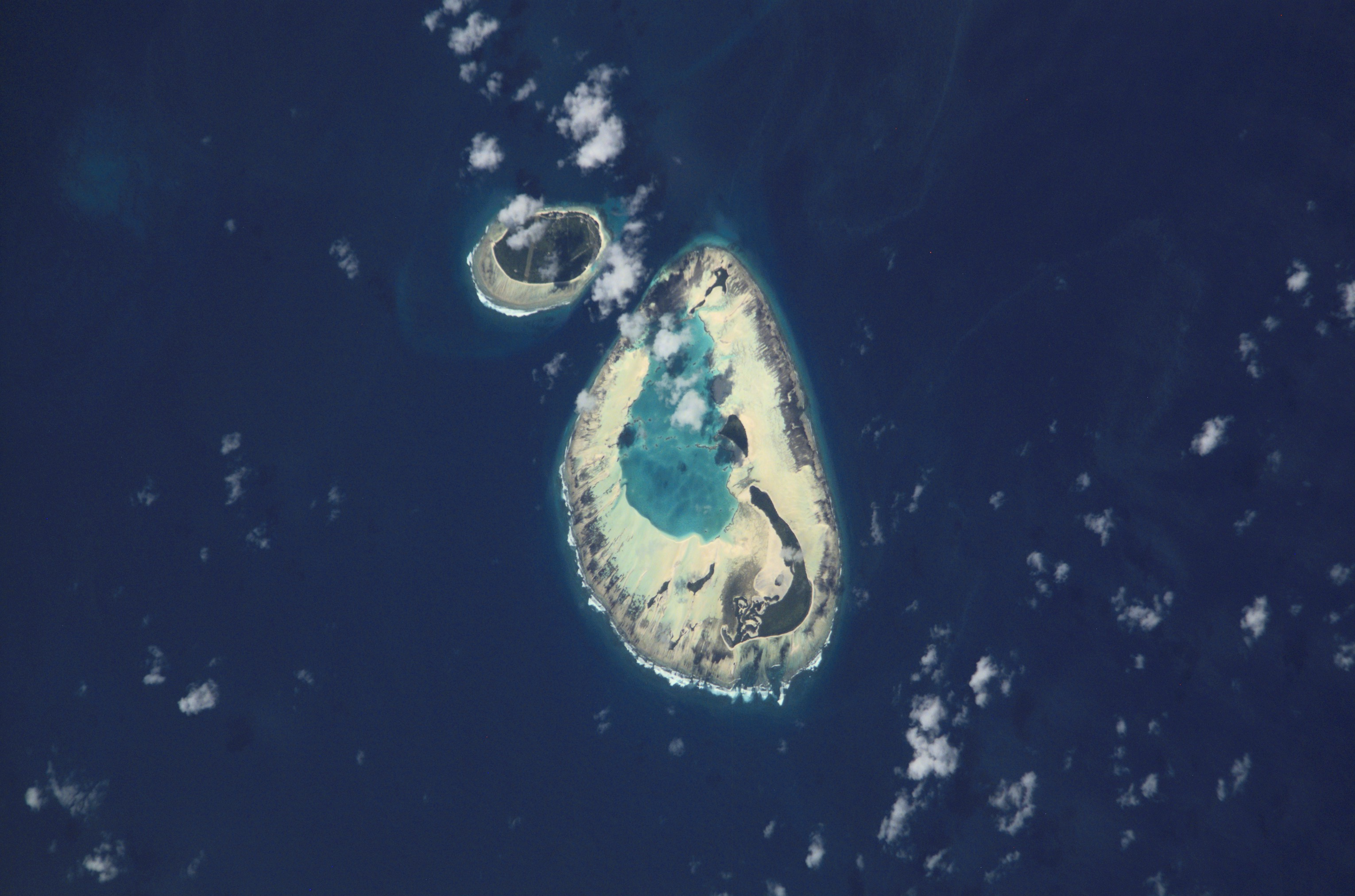 NASA astronaut image of St. Joseph's Atoll and D'Arros Island as part of Amirante Islands (Seychelles) in the Indian Ocean